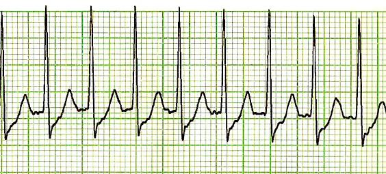 Lead II (2) ECG EKG tracing of Supraventricular tachycardia SVT in a 40 year old male